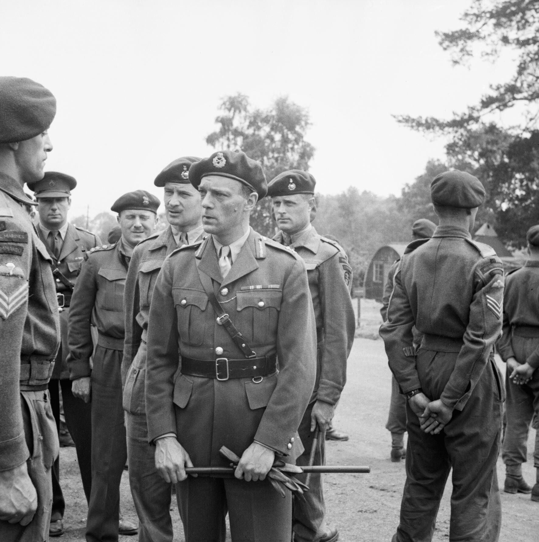 British Generals 1939-1945 Major General Sir Robert "Lucky" Laycock (1907 - 1968): Laycock, Chief of Combined Operations, talking to Marine Commandos during an inspection shortly before D Day.